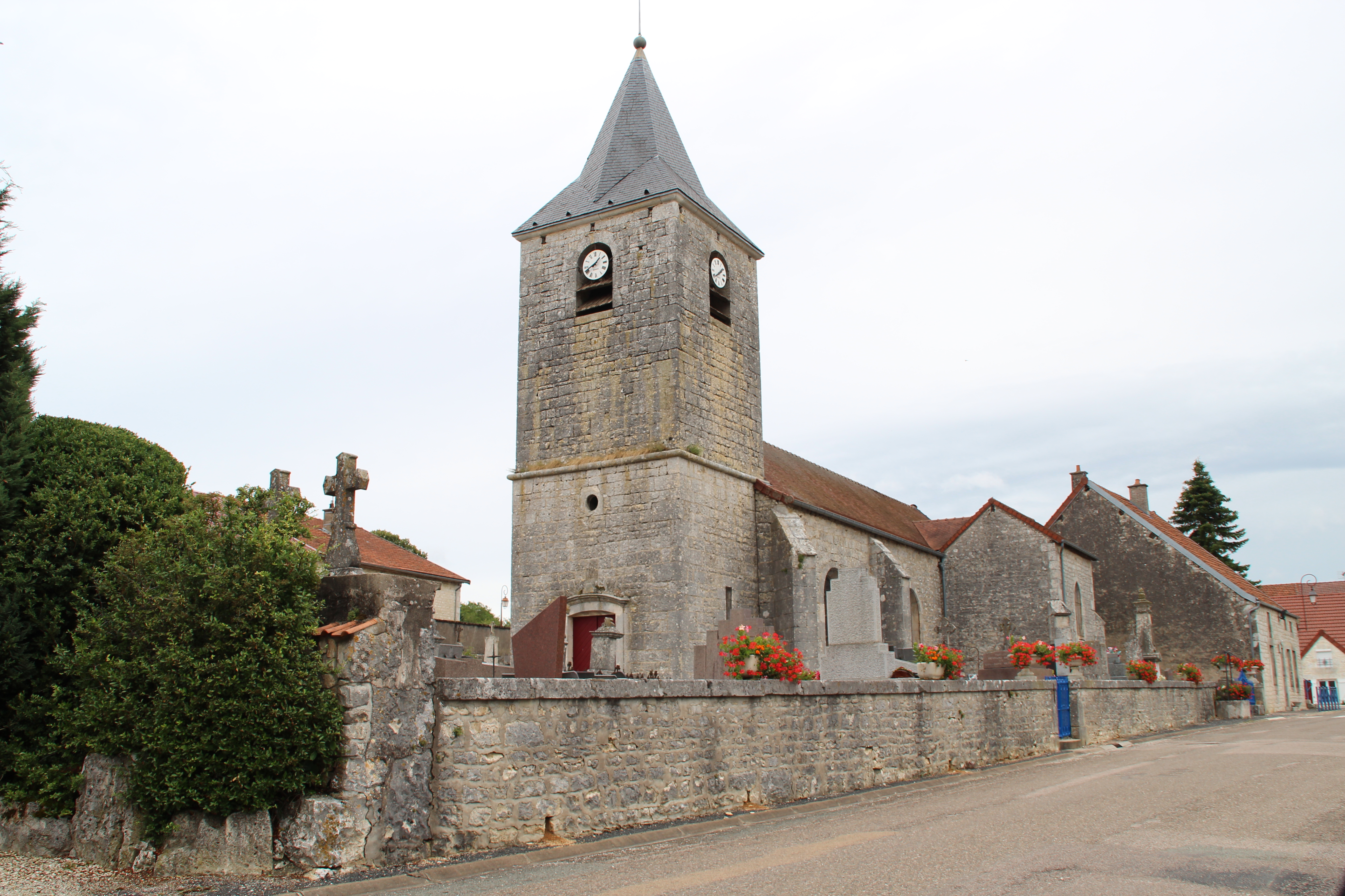 The church of Laville-aux-Bois, France.